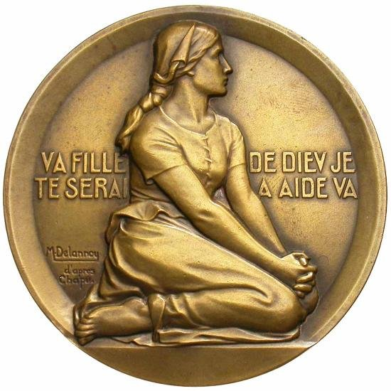 Medallion devoted to Joan of Arc. More on